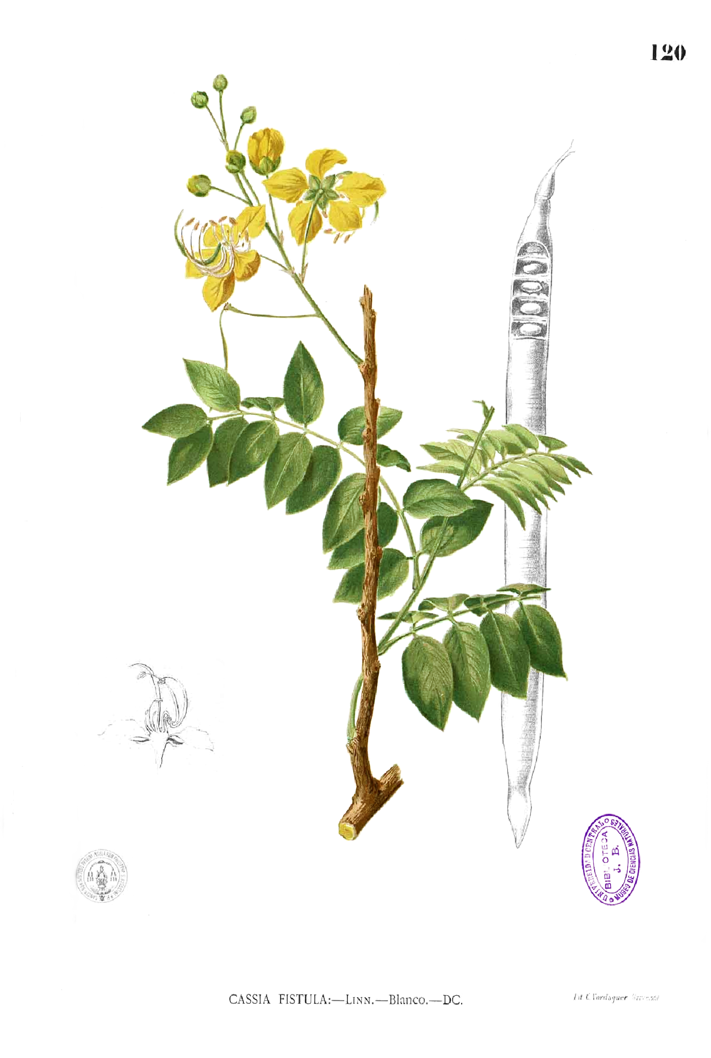 Cassia fistula, Plate from book